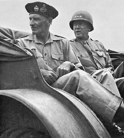 Generals Montgomery and Patton in Sicily